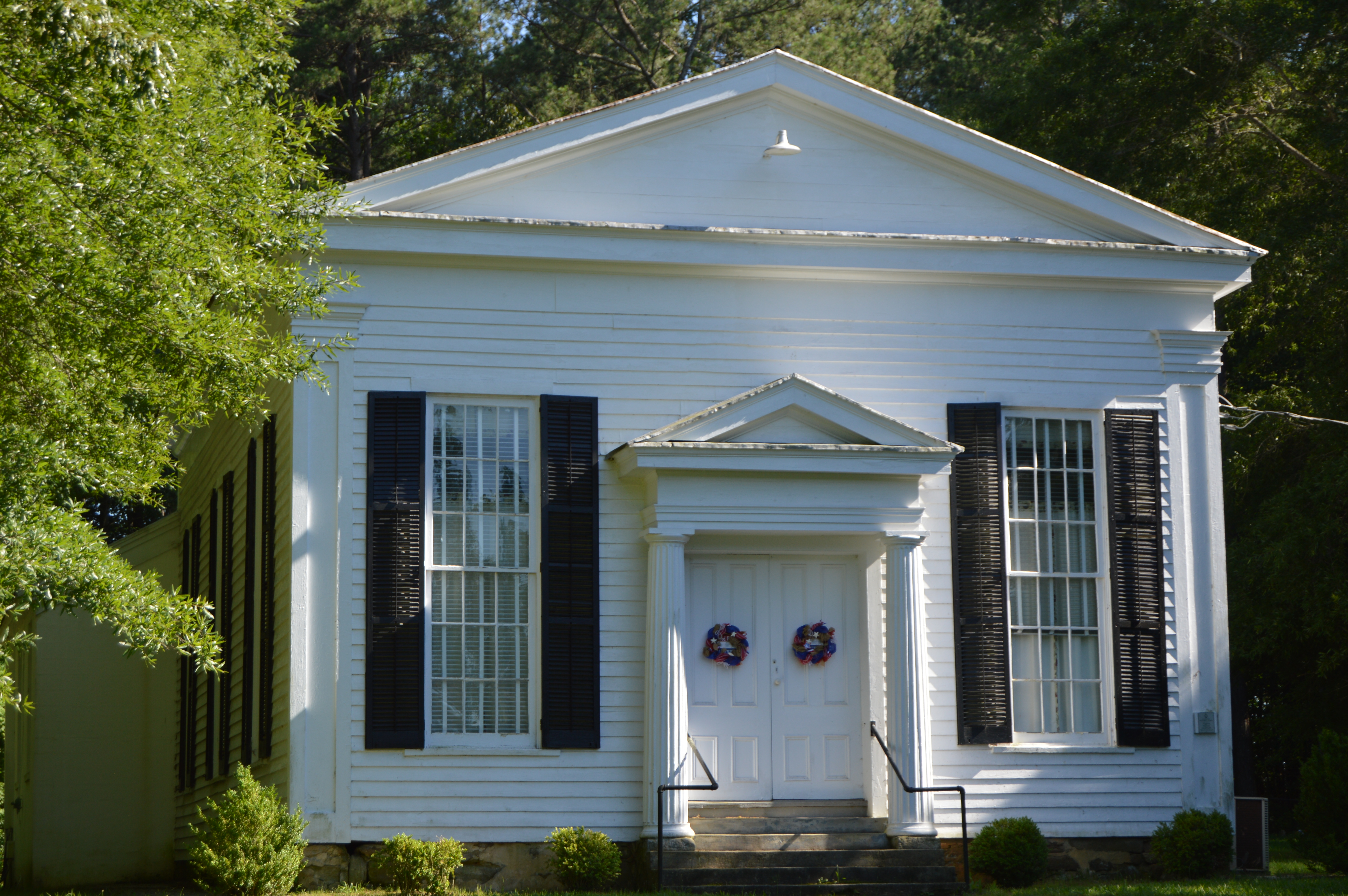 Front of the Rocky Run Methodist Church, located on Lew Jones Road northeast of Danieltown in Brunswick County, Virginia, United States. Built in 1857, it is listed on the National Register of Historic Places.